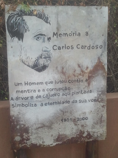 Memorial plaque to Carlos Cardoso in Maputo, Mozambique